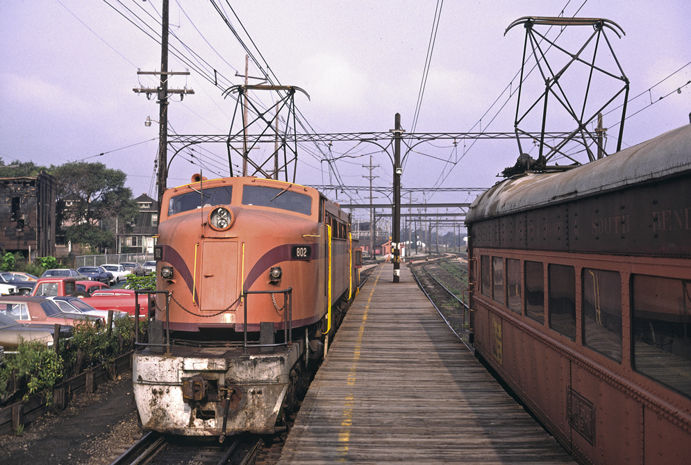 South Shore "800" #802 is pulling thru the Gary, Indiana depot in August of 1980. On the South Shore, the big locomotives were known as the "800's", not Little Joes as they were known on the Milwaukee Road